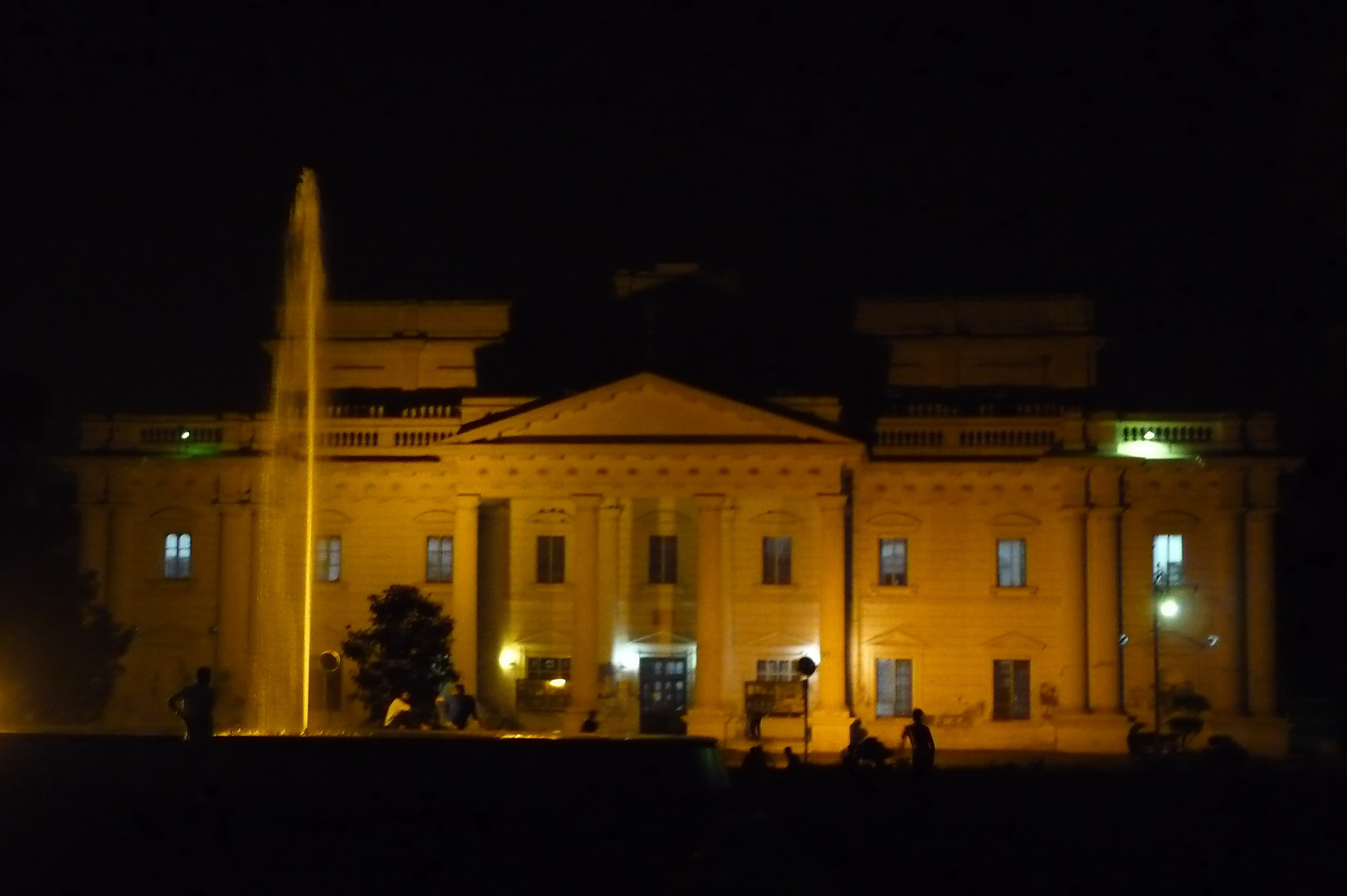 night view of library